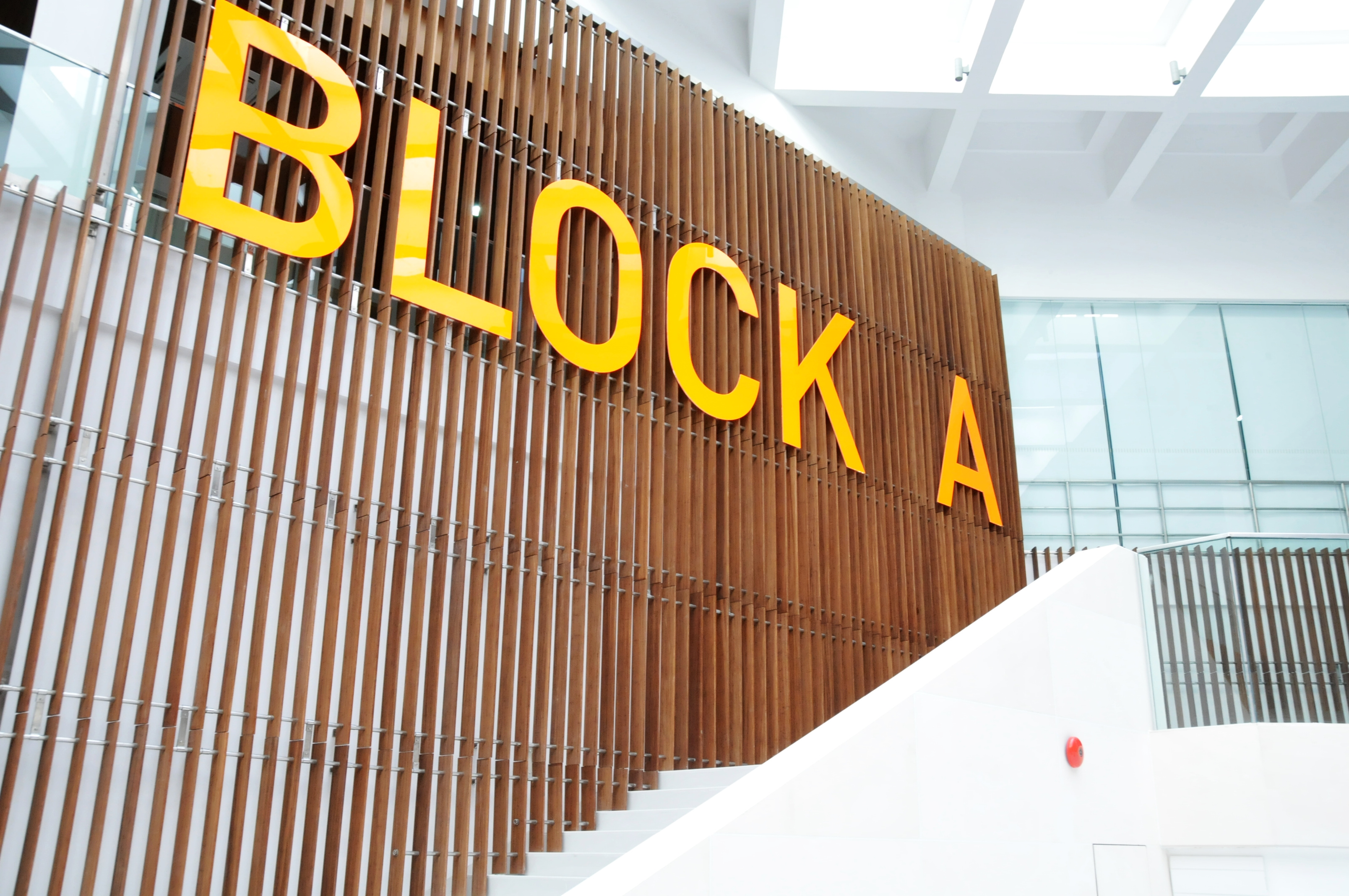 This picture shows the interior of the new administrative building of Shantou University named Block A.